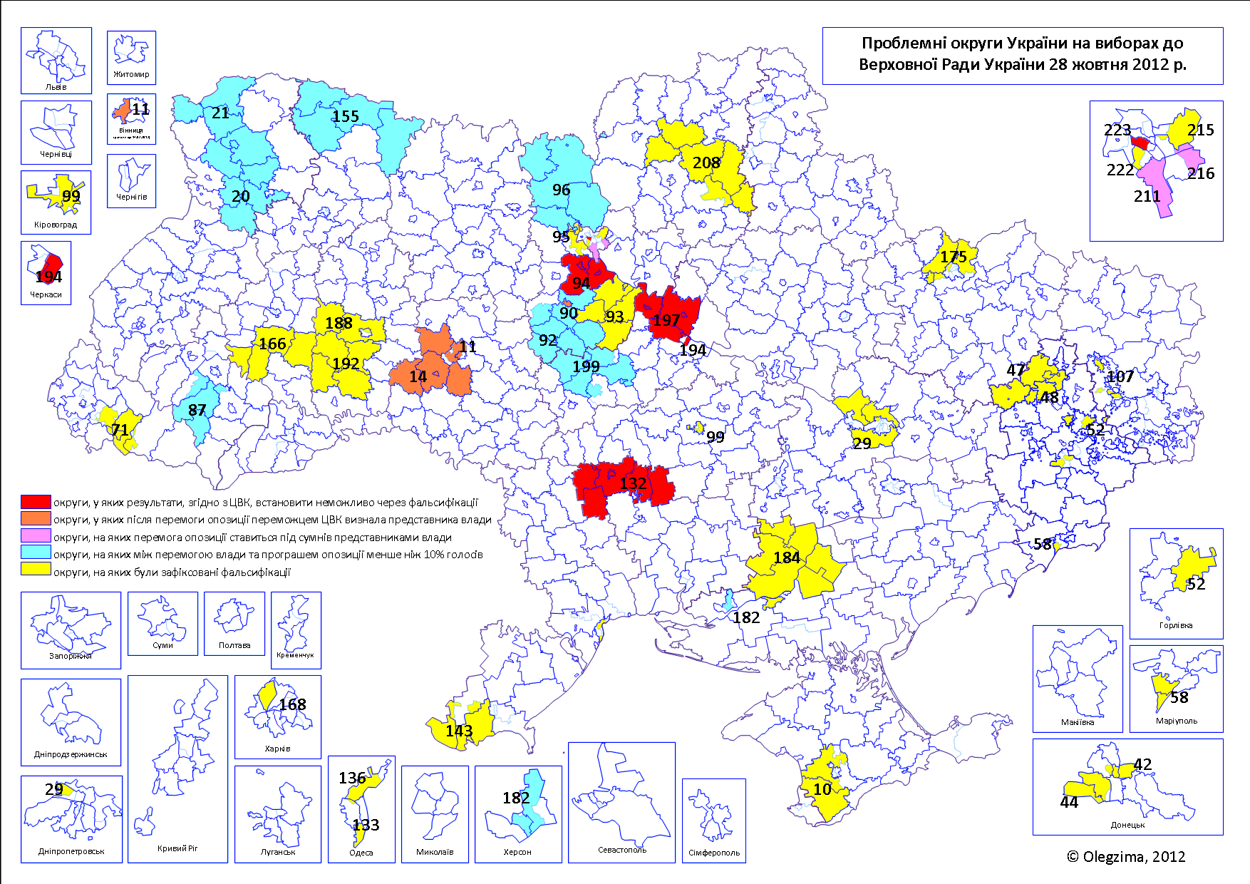 problematic Ukrainian regions on elections to the Rada of Ukraine, October 28, 2012